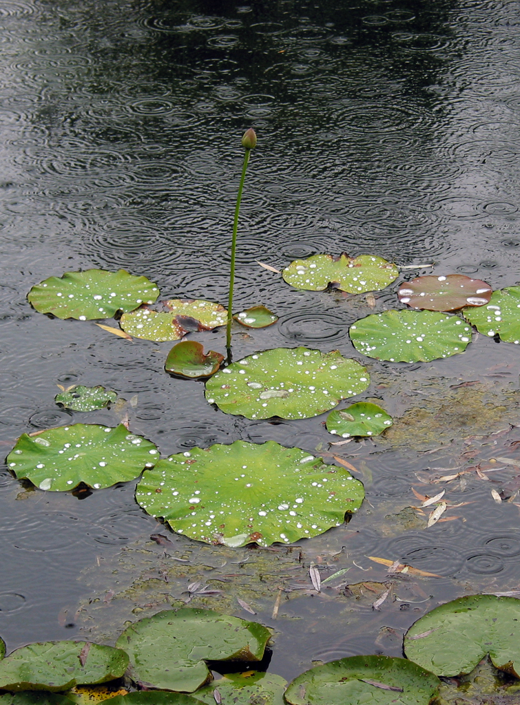 Lotus leaves on pond in rain, showing the so called lotus effect; picture taken in the Chinese Garden at the "Gärten der Welt" (gardens of the world) in Erholungspark Marzahn, Berlin / Germany